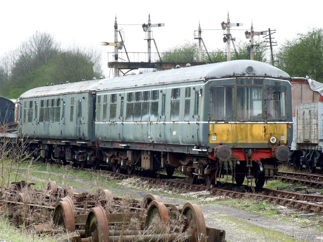 Midland Railway Centre, Swanwick Junction British Rail Class 100 56097/51118 - a Gloucester Railway Carriage and Wagon Company 2-car set, one of forty built between 1956 and 1958. Out of 80 cars, only seven made it into preservation, but three were later scrapped. The leading car 56097 is a Driving Trailer Composite with Lavatory, or DTCL. The rear car 51118 is a Driving Motor Brake Second, or DMBS.